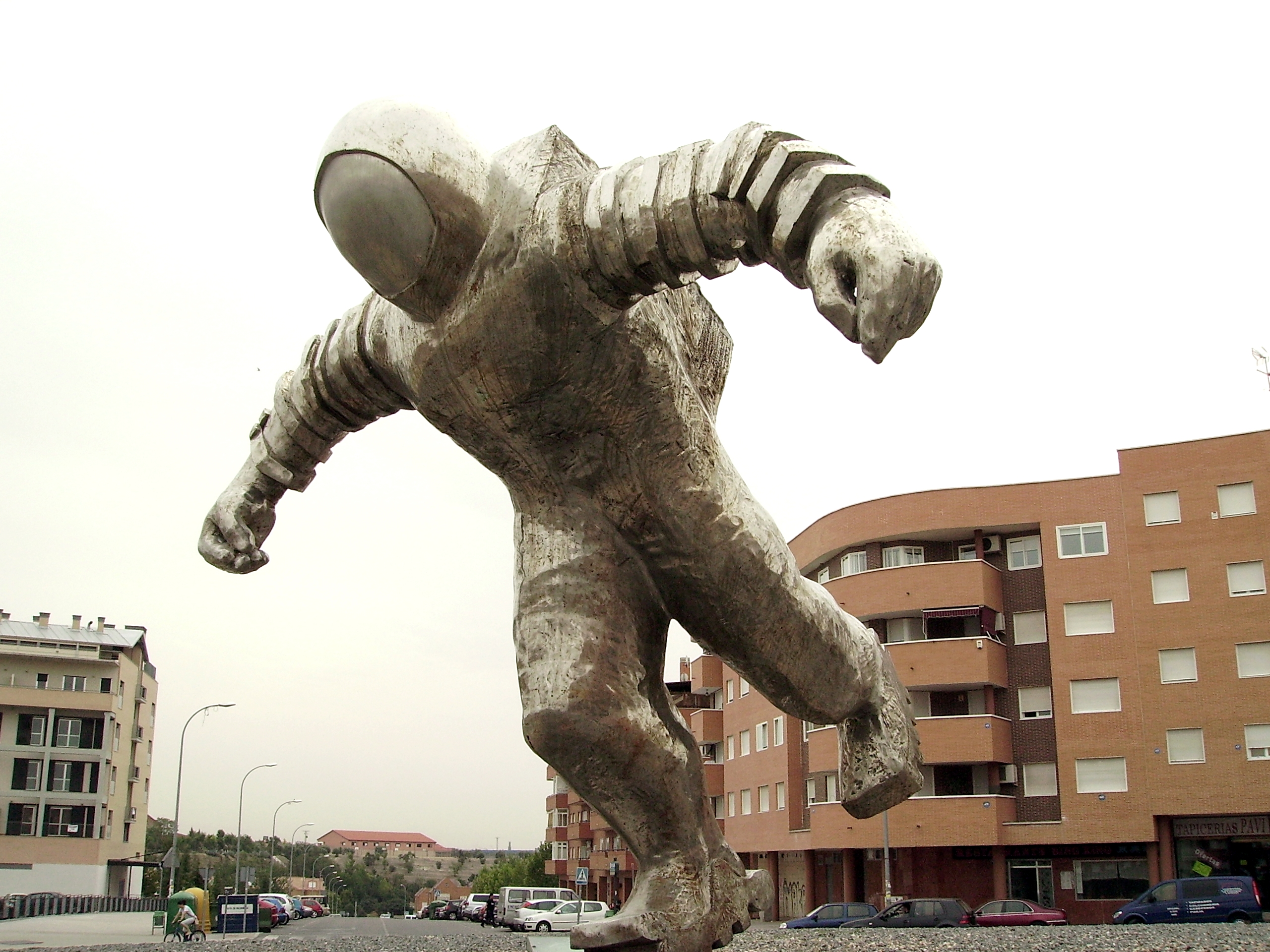 The Astronaut. Sculpture by Francisco Leiro (born 1957). Cast stainless steel. Weight: 2,600 kilos. Height: 4 metres. Inaugurated in Valdemoro (Community of Madrid, Spain) in 2001.